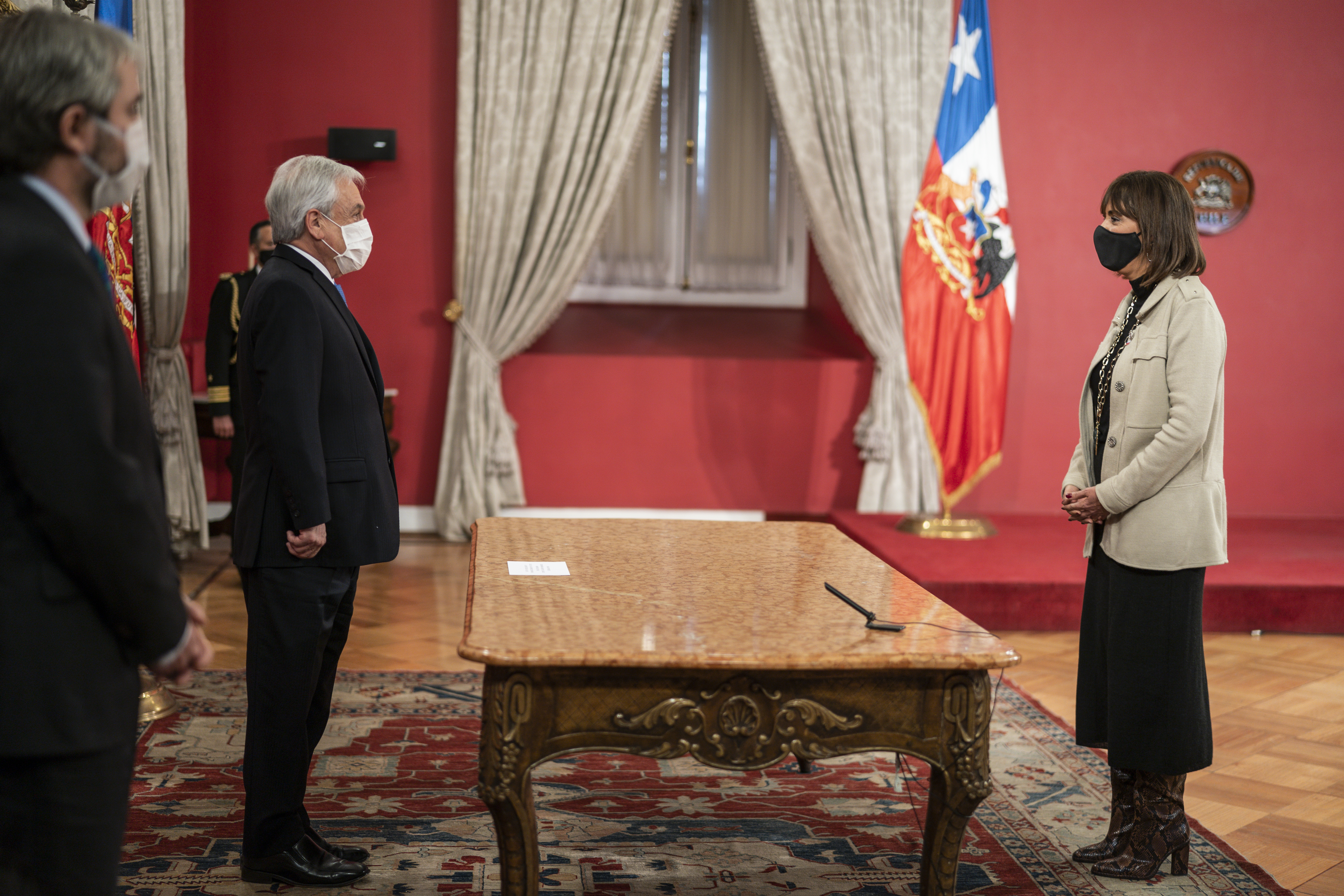 President Piñera appoints Mónica Zalaquett as the new Minister for Women and Gender Equity: "Chile is going to be a better country when we succeed in banishing all discrimination"